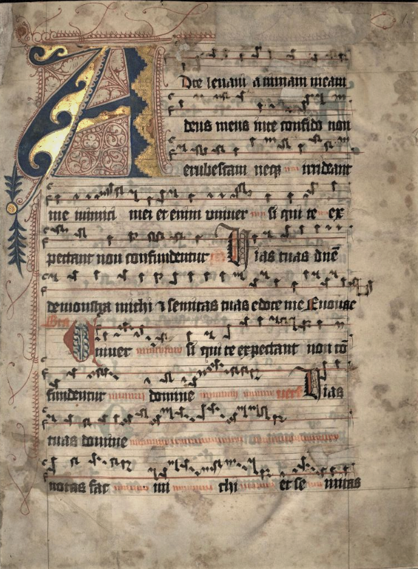 15th-century Graduale, given by Dompropst Johannes Walling (1390-1458) Stadtbibliothek Lübeck Ms. theol. lat. 2° 17, f. 1r Introitus "Ad te Levavi" for Advent I